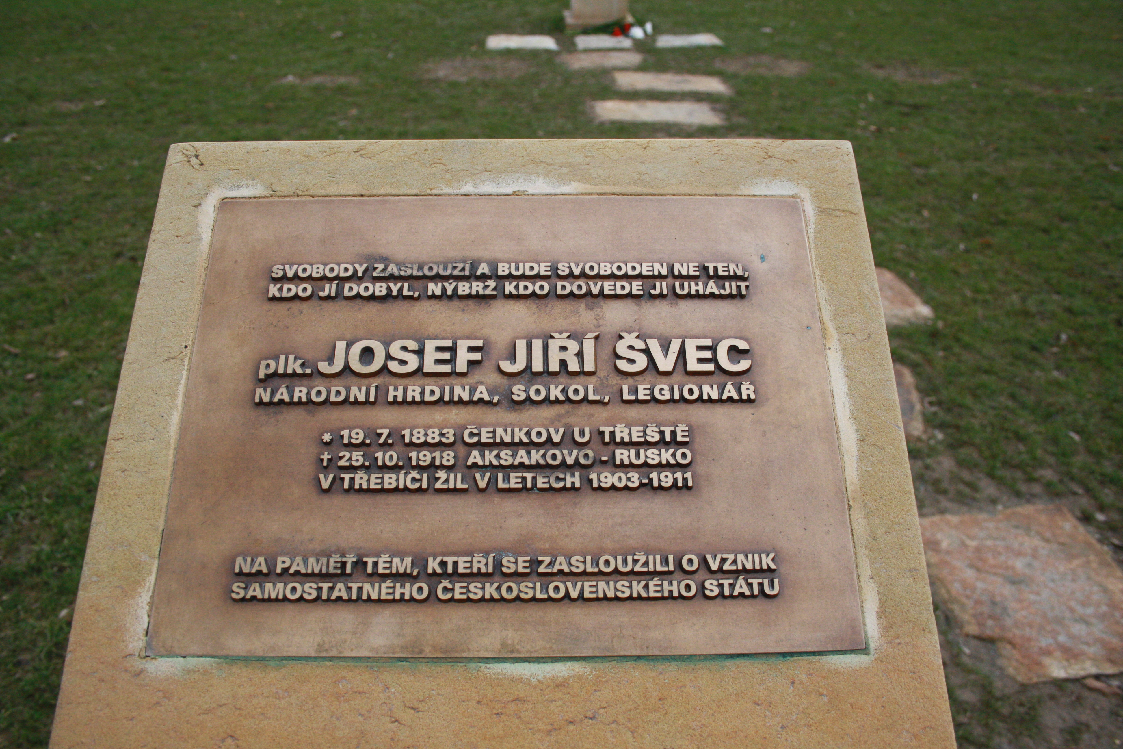 Plaque of Josef Jiří Švec in Třebíč, Czech Republic.